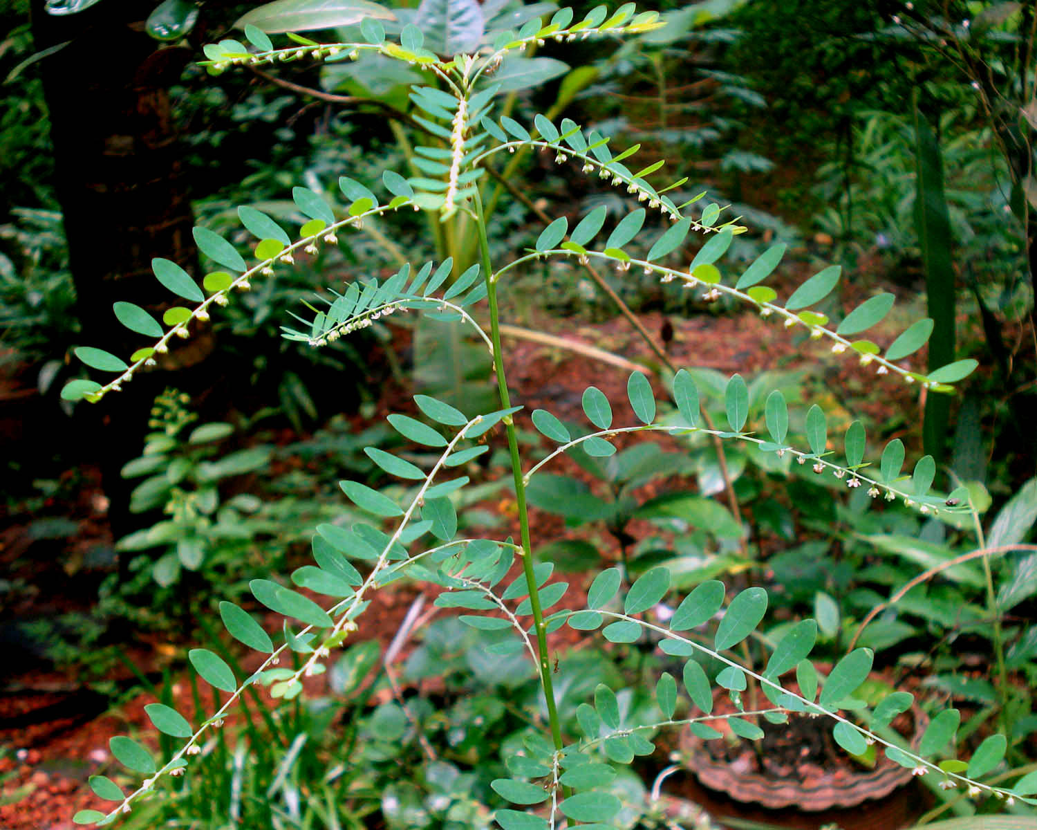 An important medicinal plant.